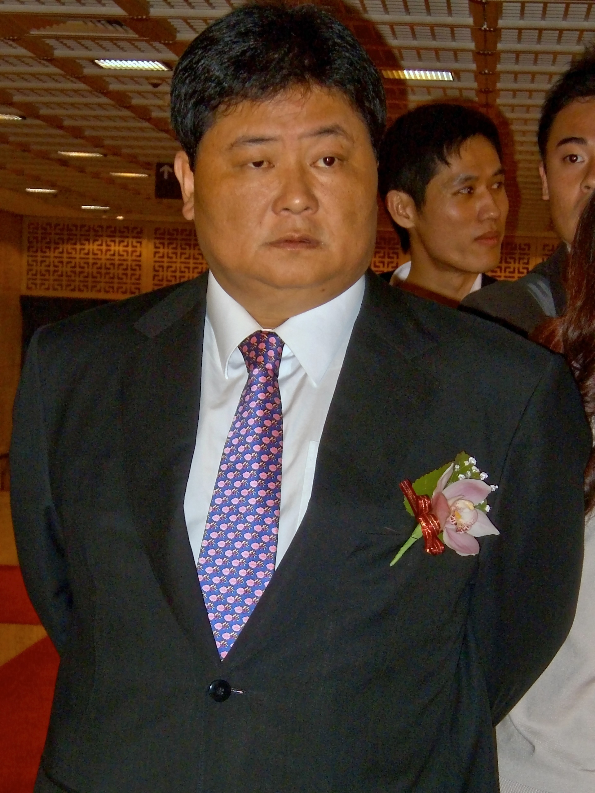 2008 FUSE - Press Conference in Taipei: Chin-piao Yen.Bân-lâm-gú: Gân Tshing-piau tī 2008-nî FUSE pháng-tsit sî-siōng tsiu ê Tâi-pak kì-tsiá-huē. 顏清標佇2008年FUSE紡織時尚週的臺北記者會。